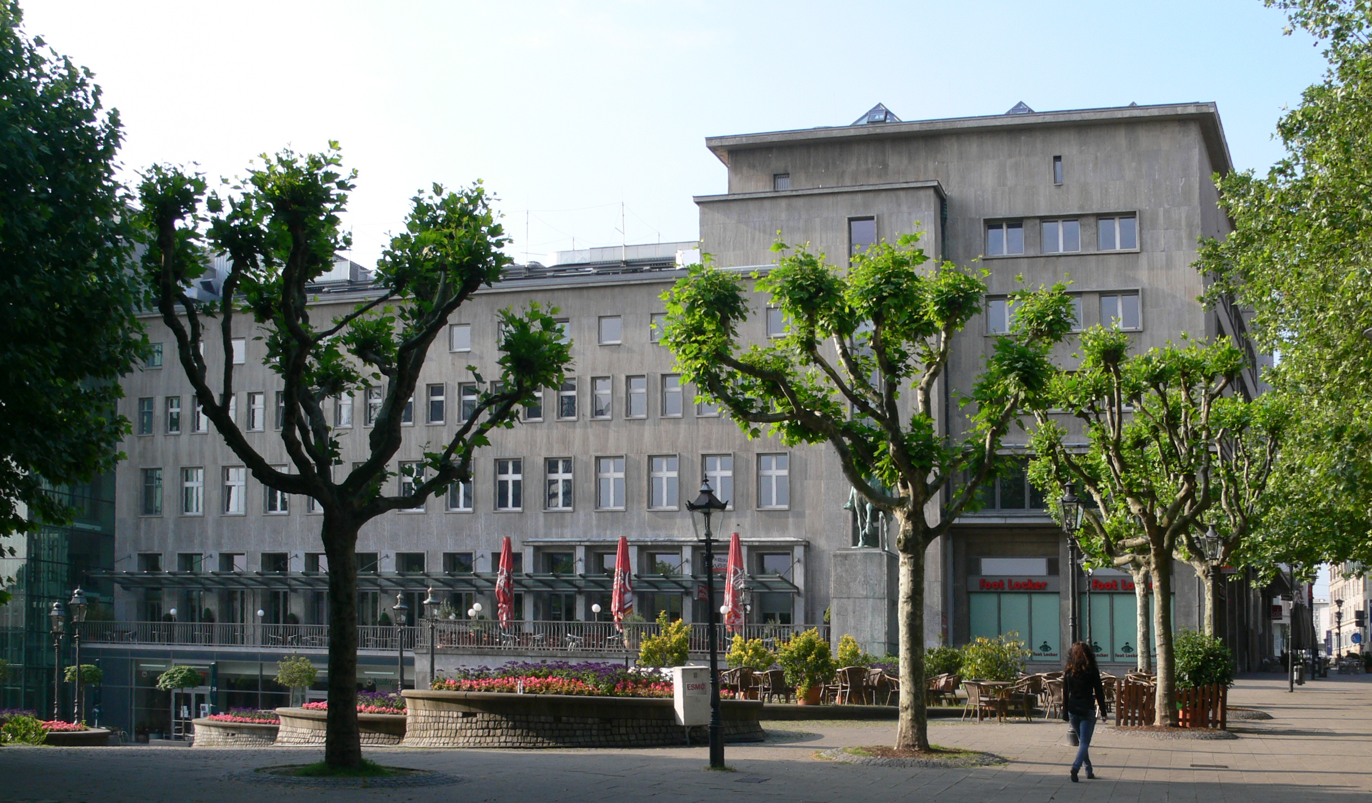 "LIchtburg" cinema, Essen, Germany.